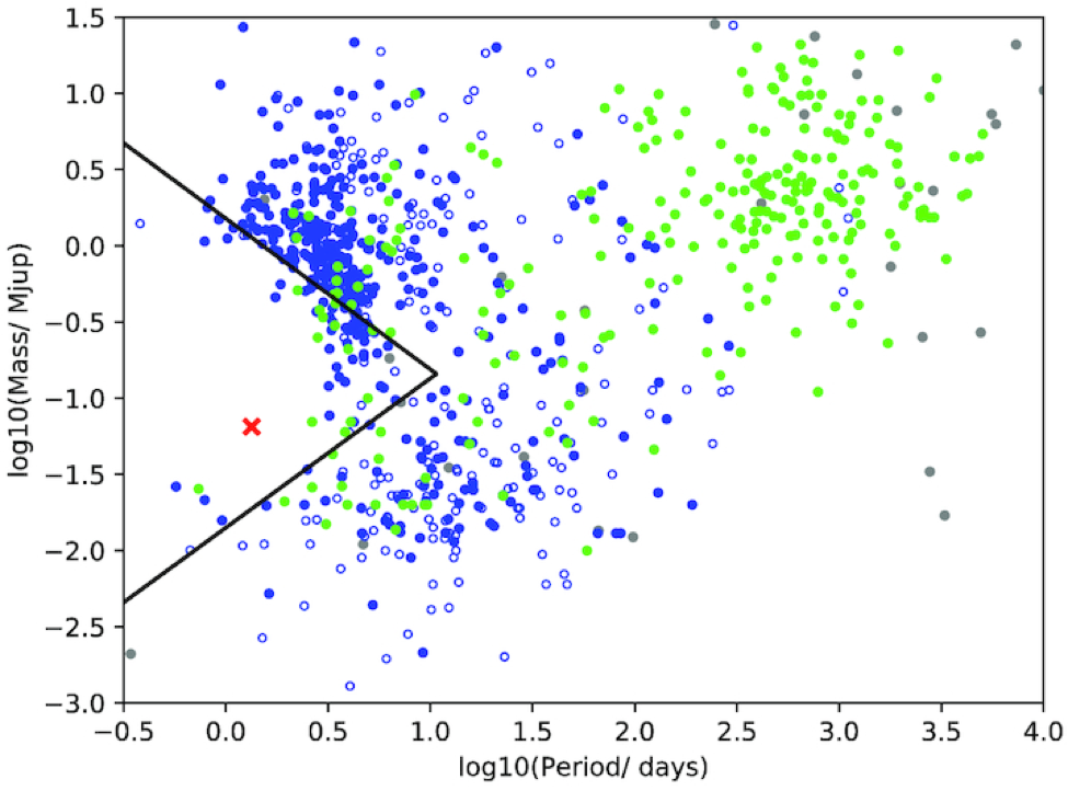 Distribution of mass versus orbital period for planets with a measured mass. Planets discovered by the transit method are shown in blue, with those having masses measured to better than 30 per cent represented as filled circles. Planets found by radial velocity are shown as green circles and those detected by other methods are shown by grey circles. Black lines represent the Neptunian desert as defined in Mazeh et al.[1] NGTS-4b is shown as a red cross. Taken from the NASA Exoplanet Archive on 2018 August 14.